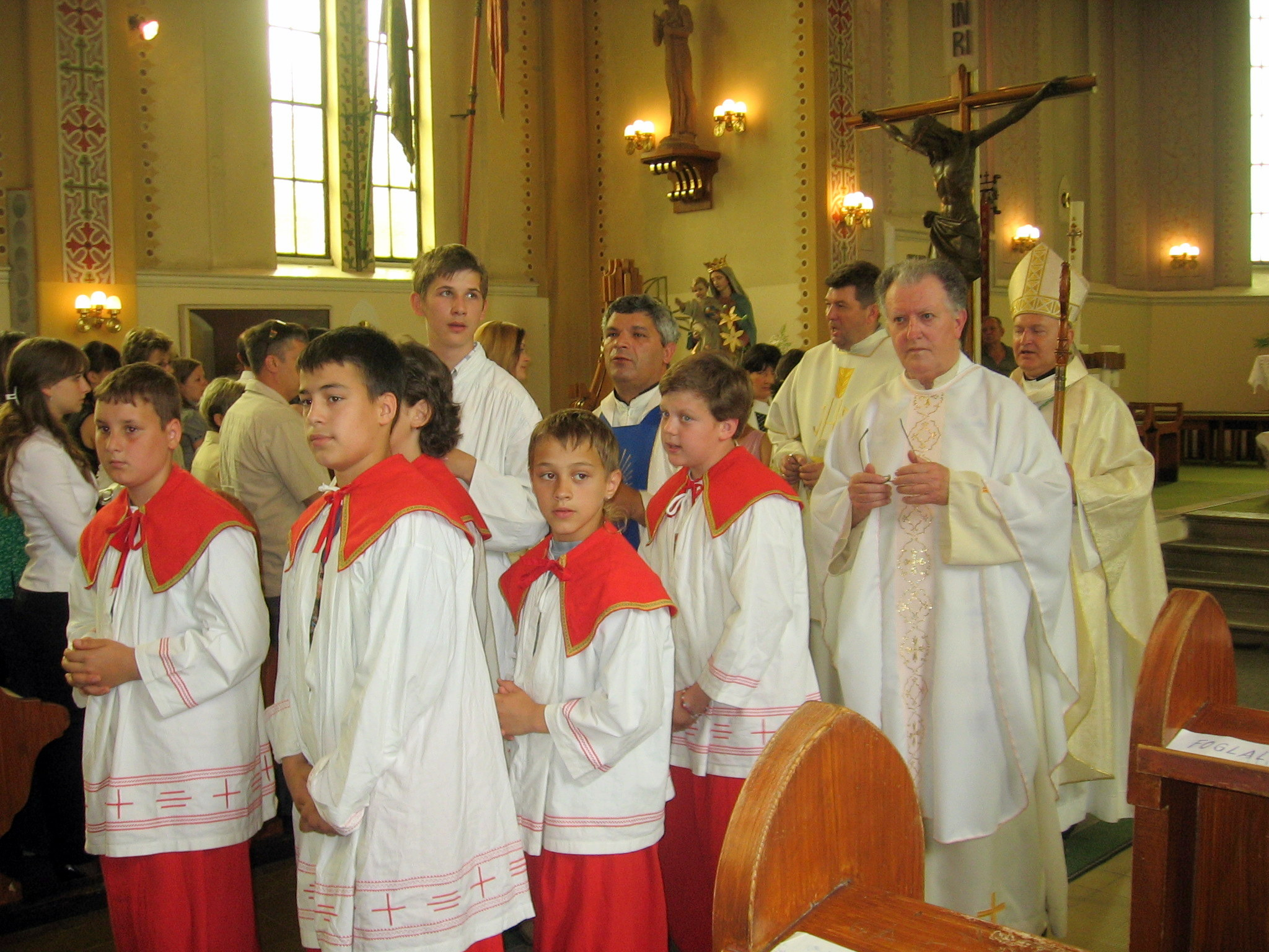 Procession after confirmation in Mužlja on 24th May, 2009